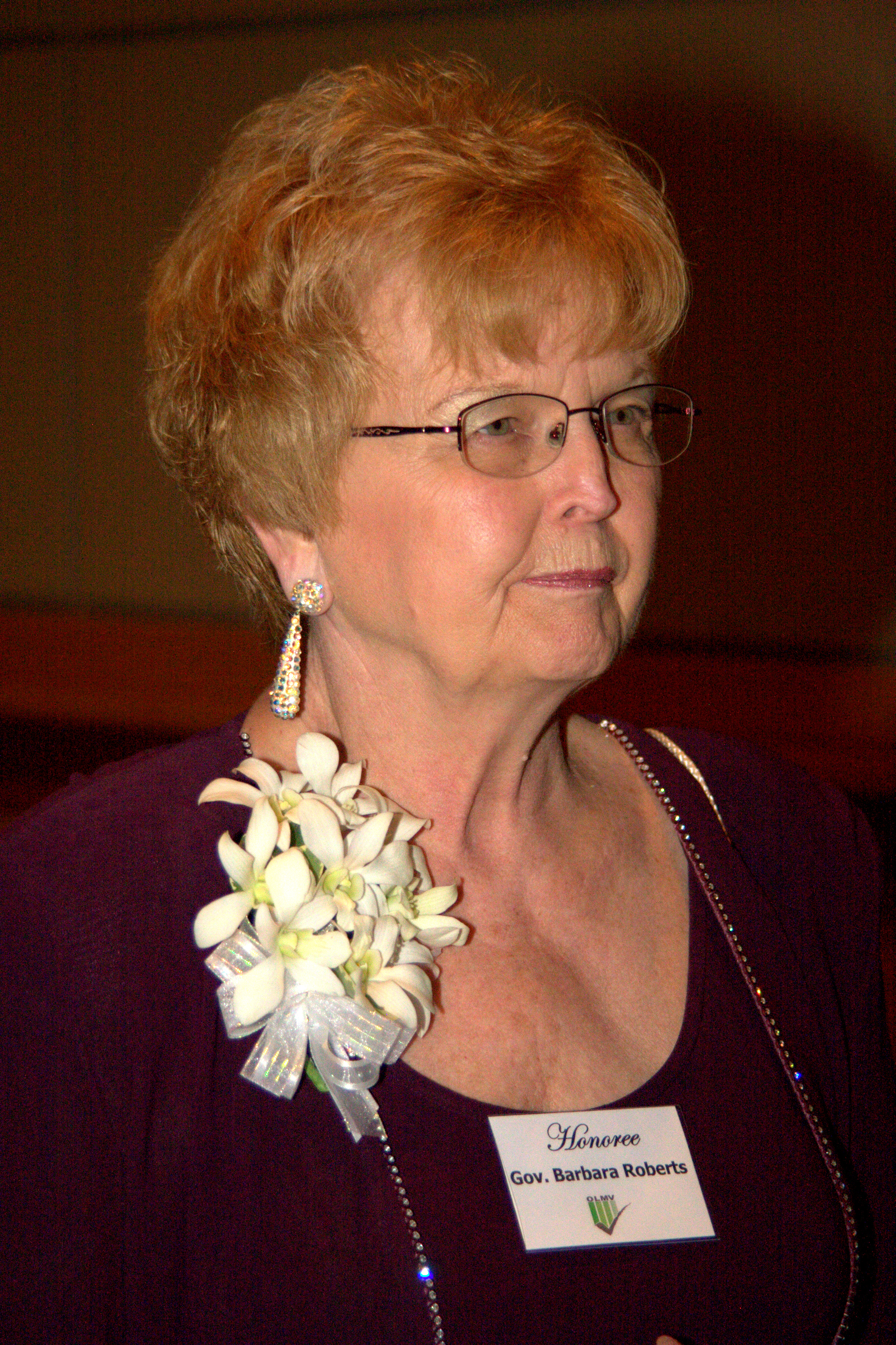 Former Gov. Barbara Roberts in 2009 at the Oregon League of Minority Voters Dinner of Hope.